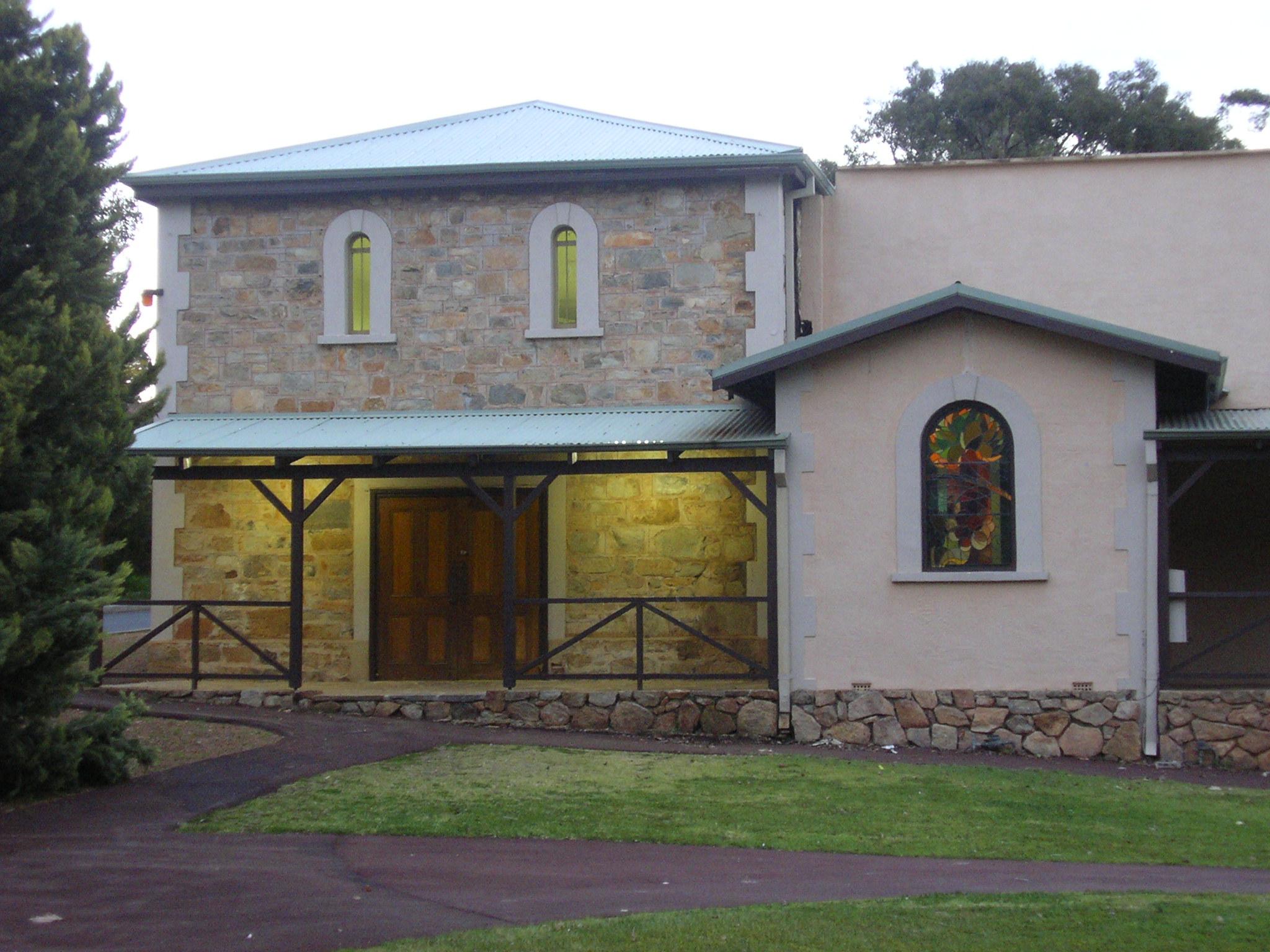 Darlington Hall, Western Australia. Main entrance taken from north.